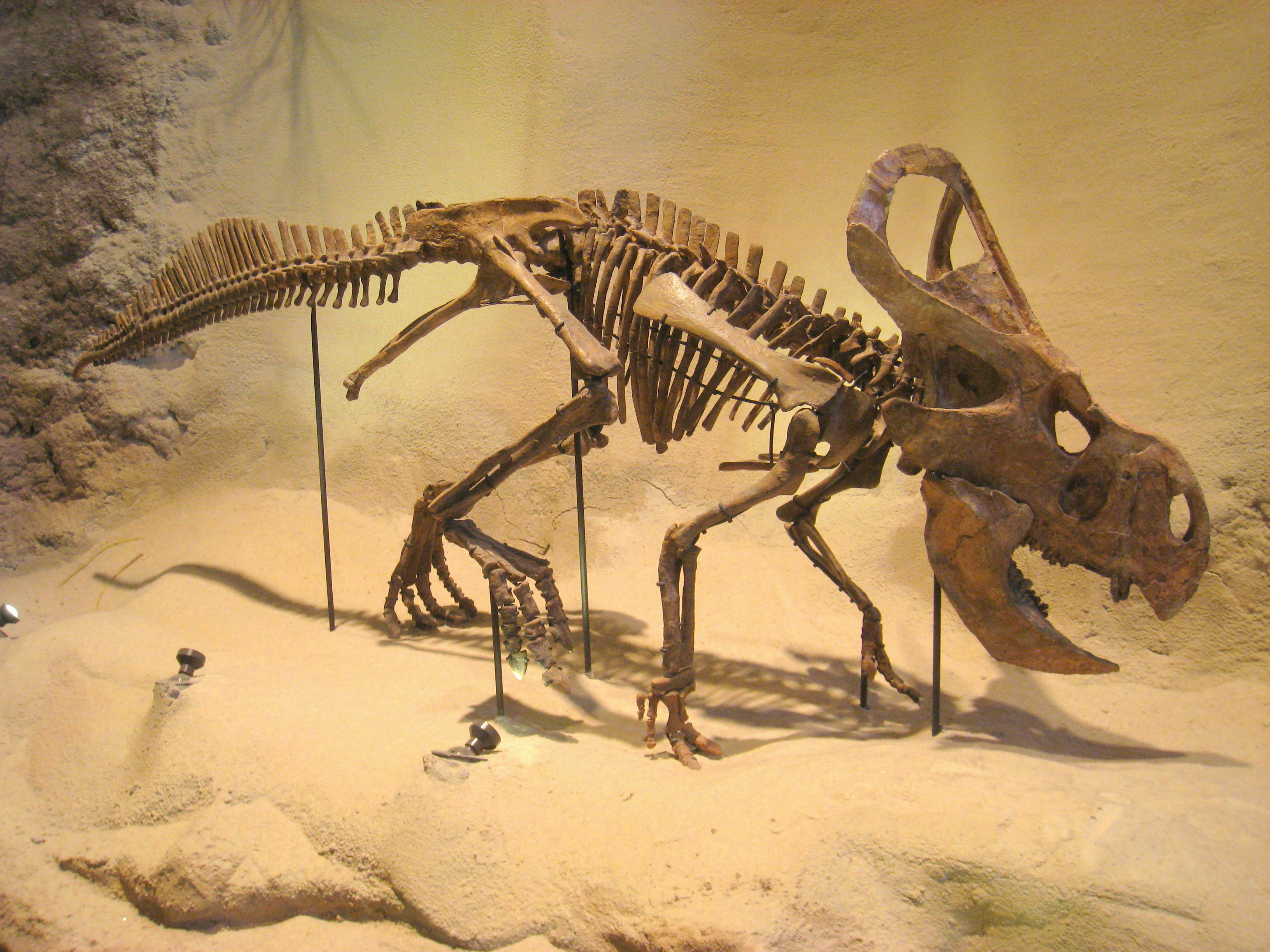 Protoceratops andrewsi, Carnegie Museum of Natural History, Pittsburgh, Pennsylvania, USA.